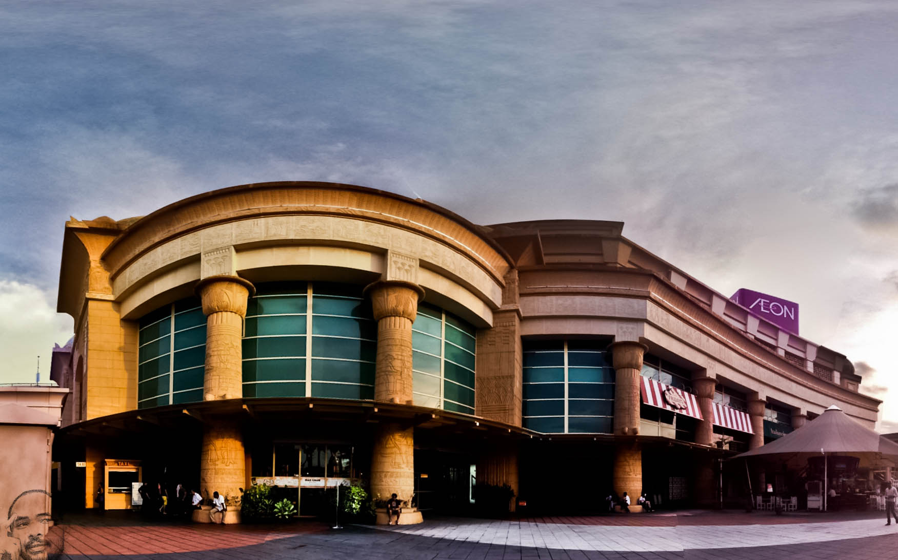 Sunway Pyramids Mall